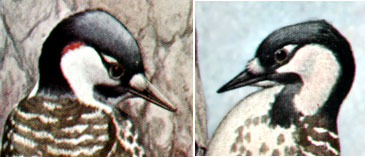 Red-cockaded Woodpecker, Picoides borealis, detail--heads of male (left) and female (right), offset reproduction of painting (watercolor?)